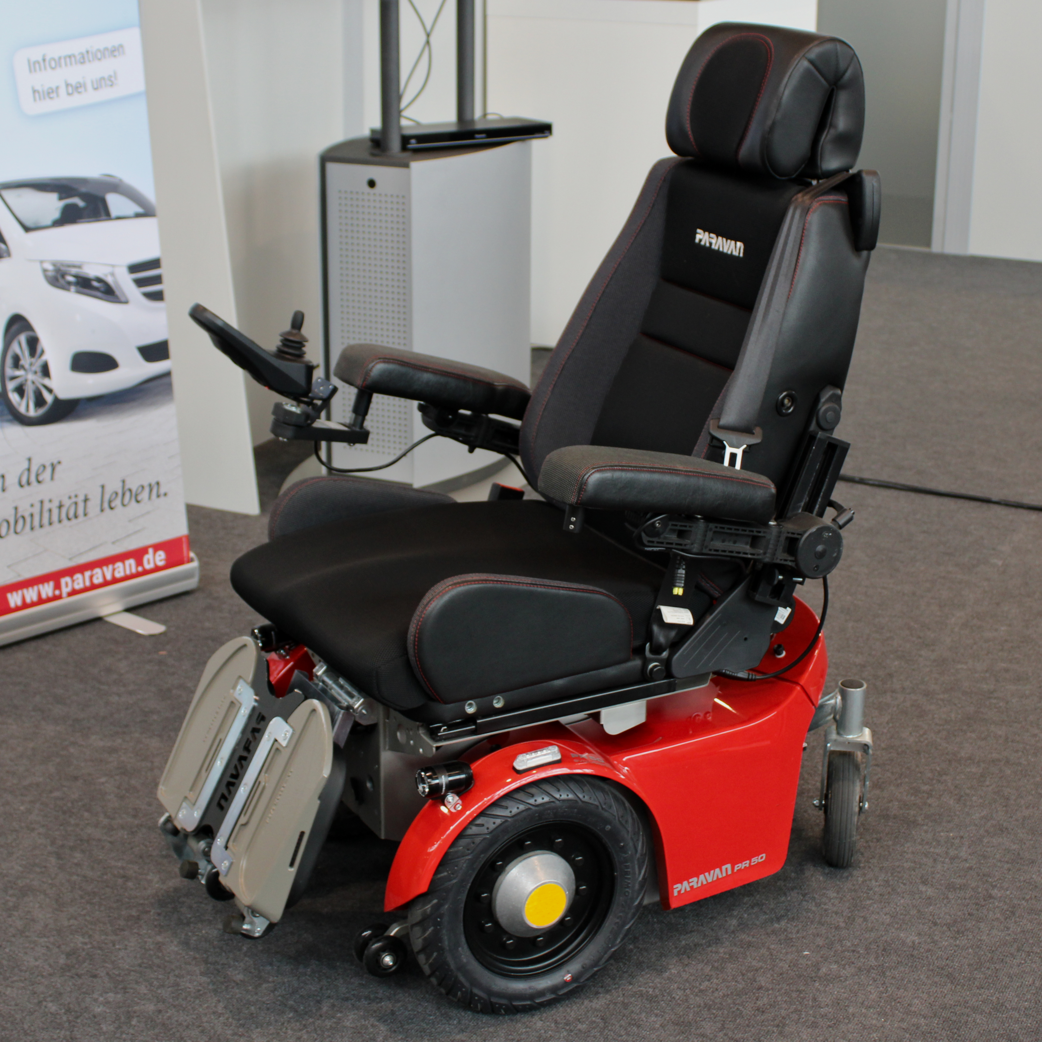 Schaeffler Paravan at i-Mobility 2019